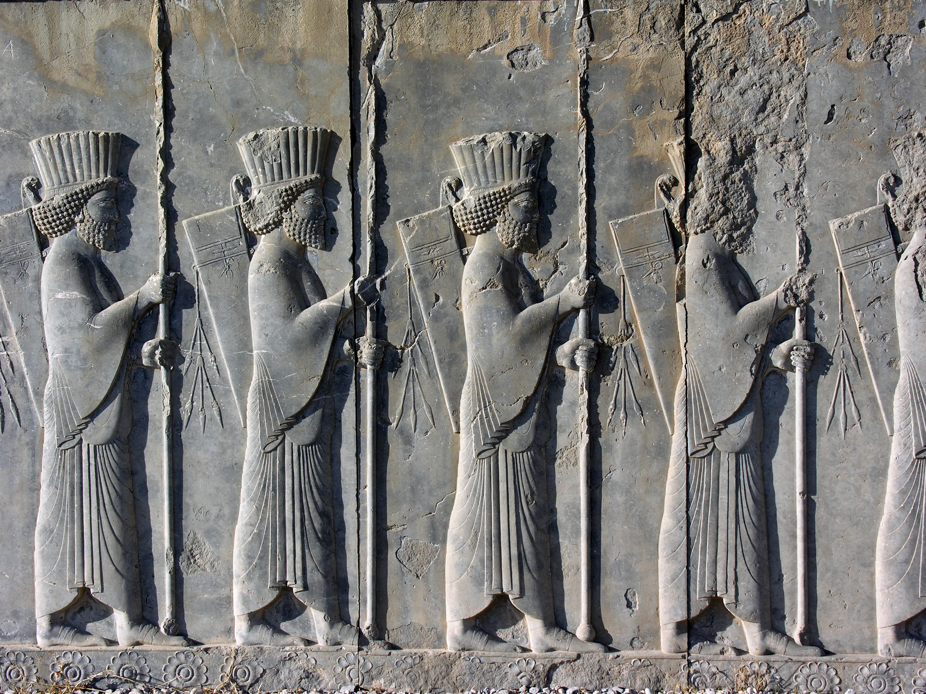 Iran, Tachara Palace of Darius I